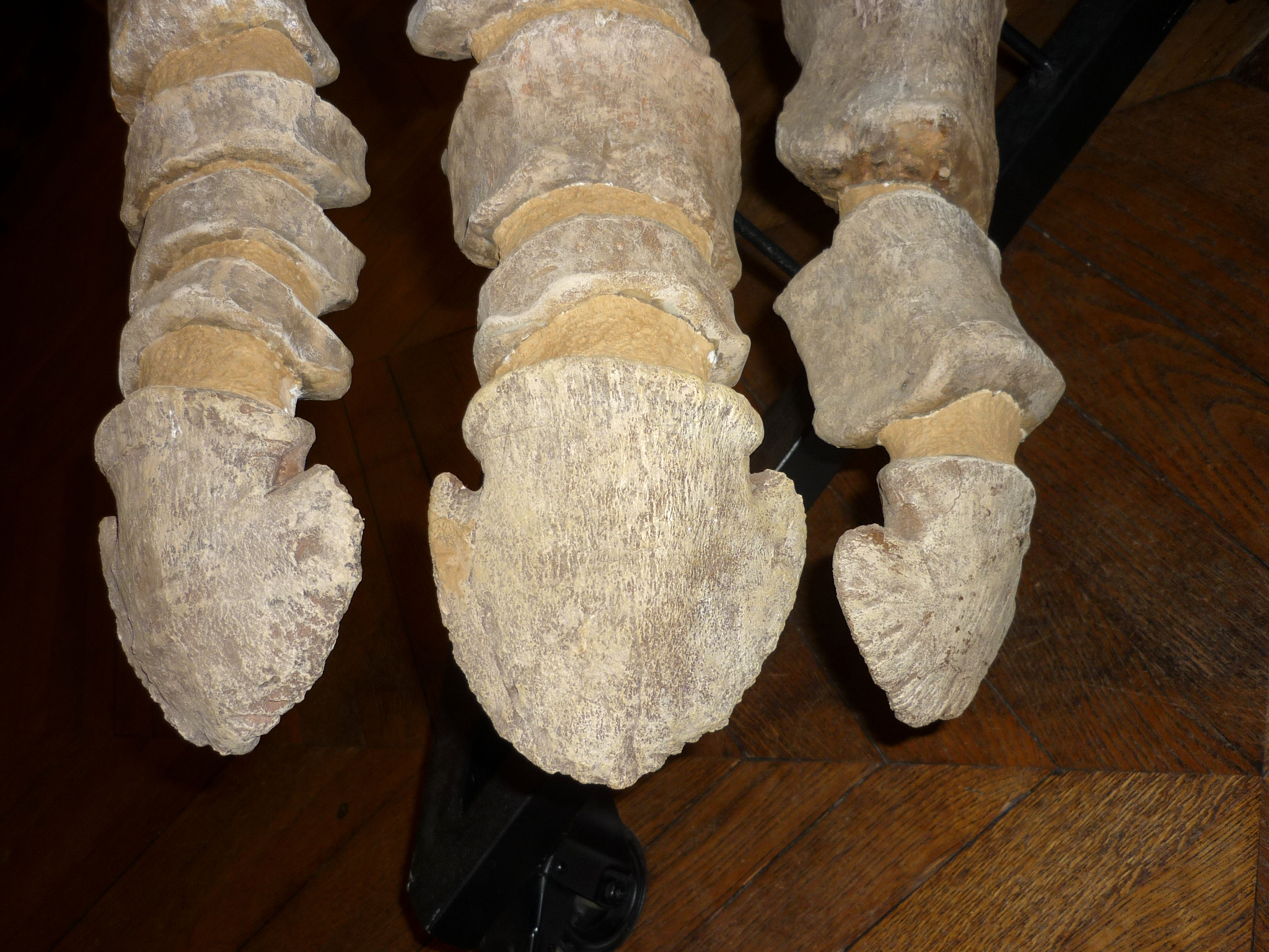 Hindlimb of Prosaurolophus maximus, Institut de paléontologie humaine, Paris, France